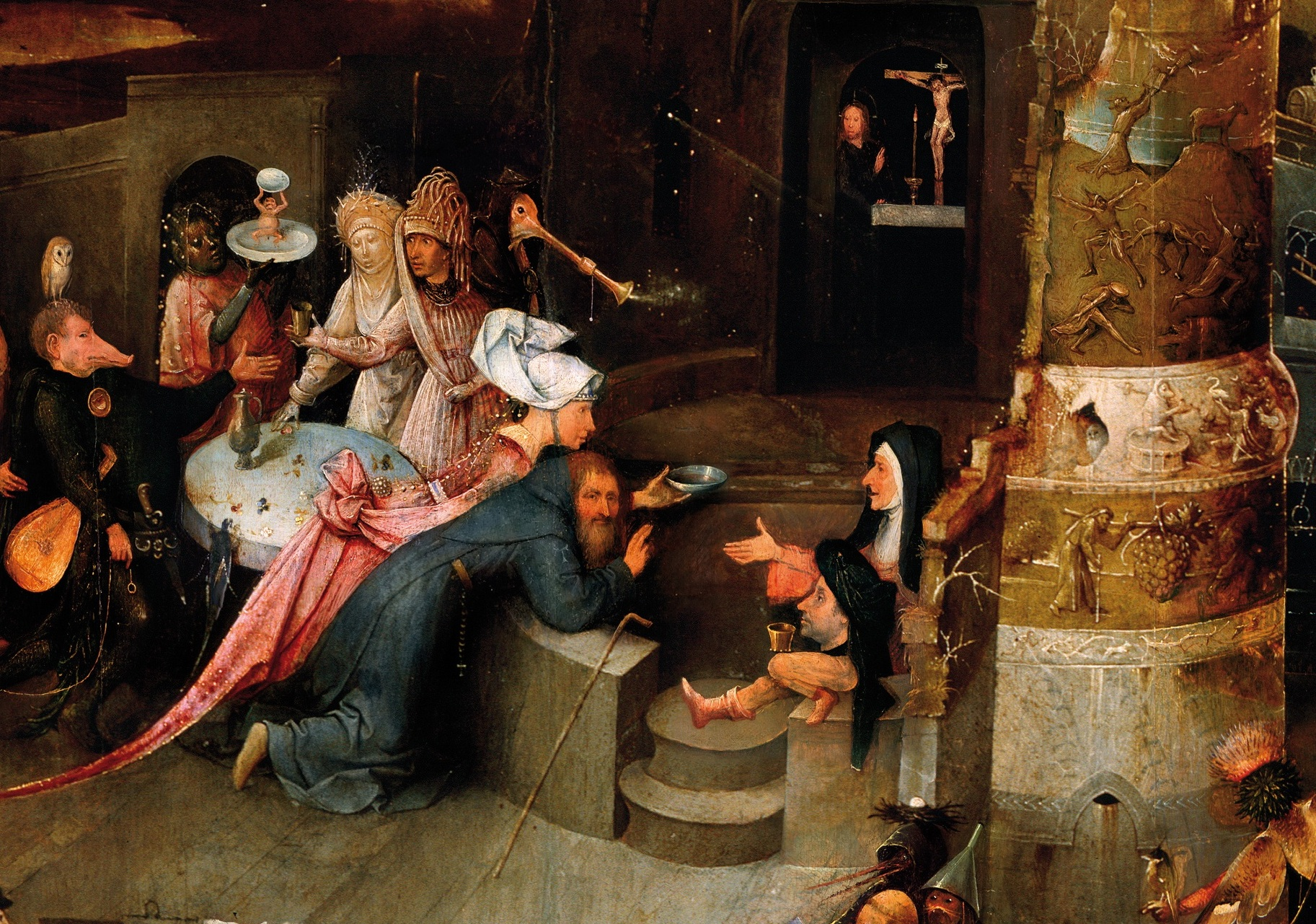 The Temptation of Saint Anthony.